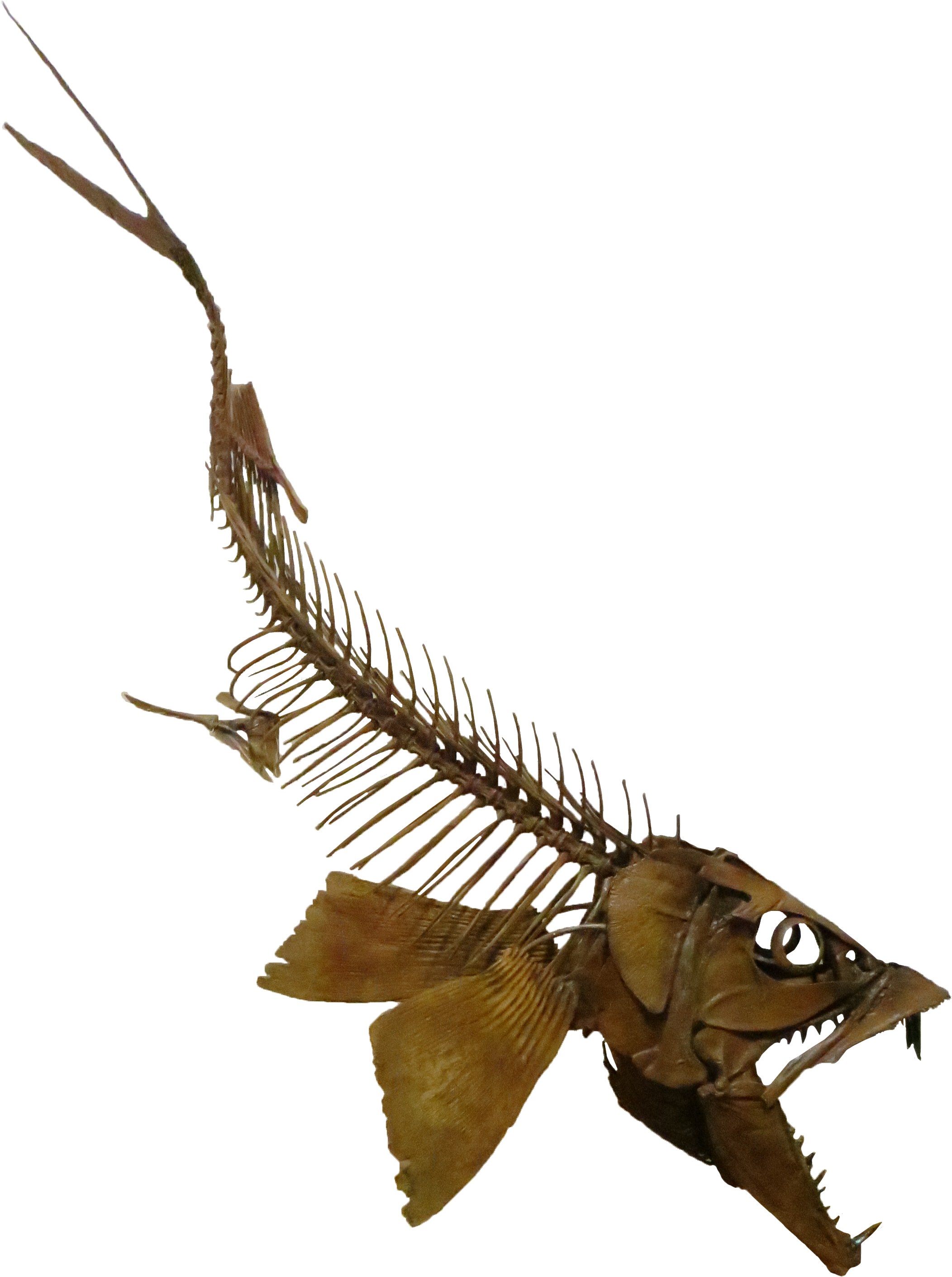 Enchodus petrosus mounted skeleton cast in the Rocky Mountain Dinosaur Resource Center in Woodland Park, Colorado